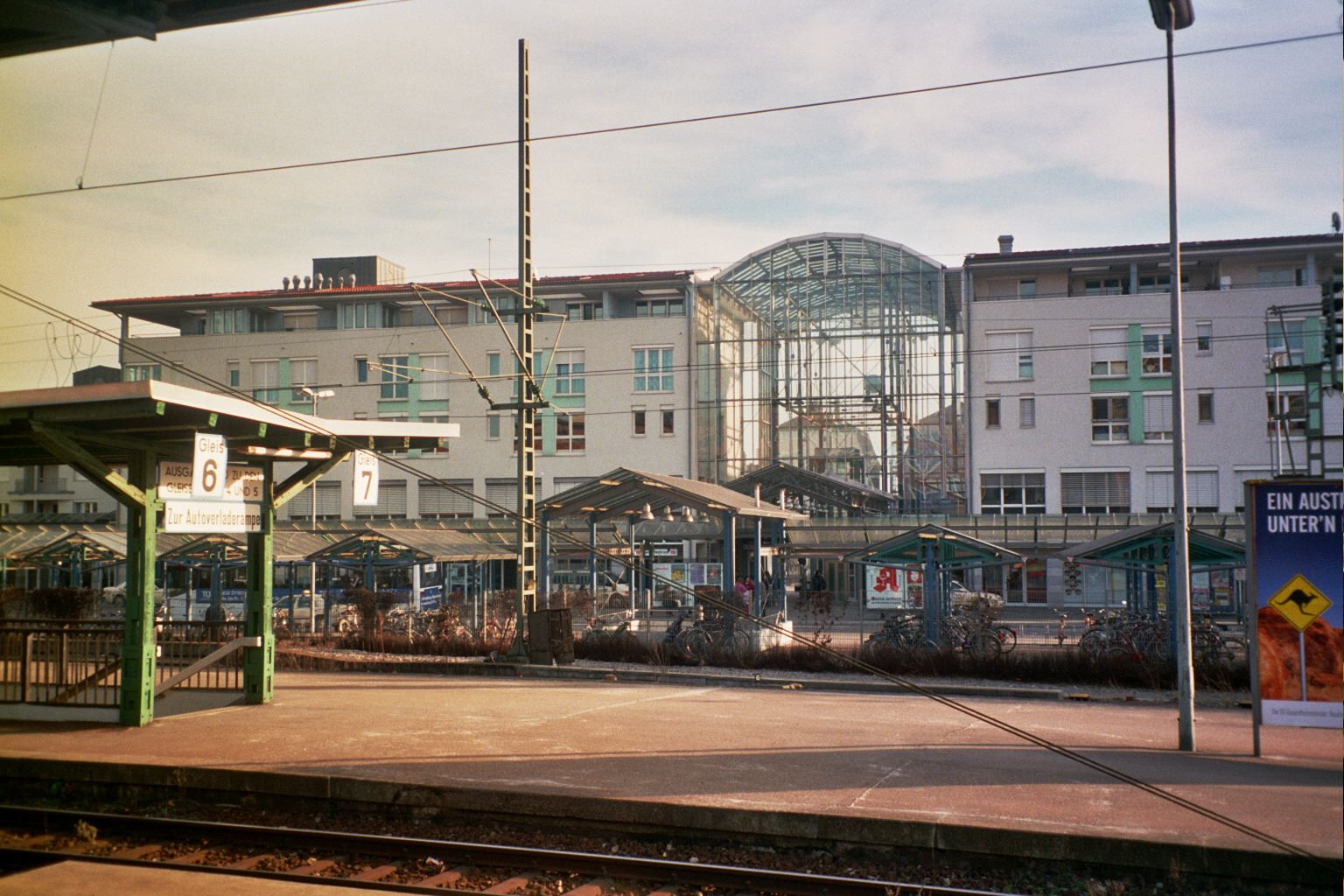 Germany, Kornwestheim, railway station, seen from railway side. around 2000